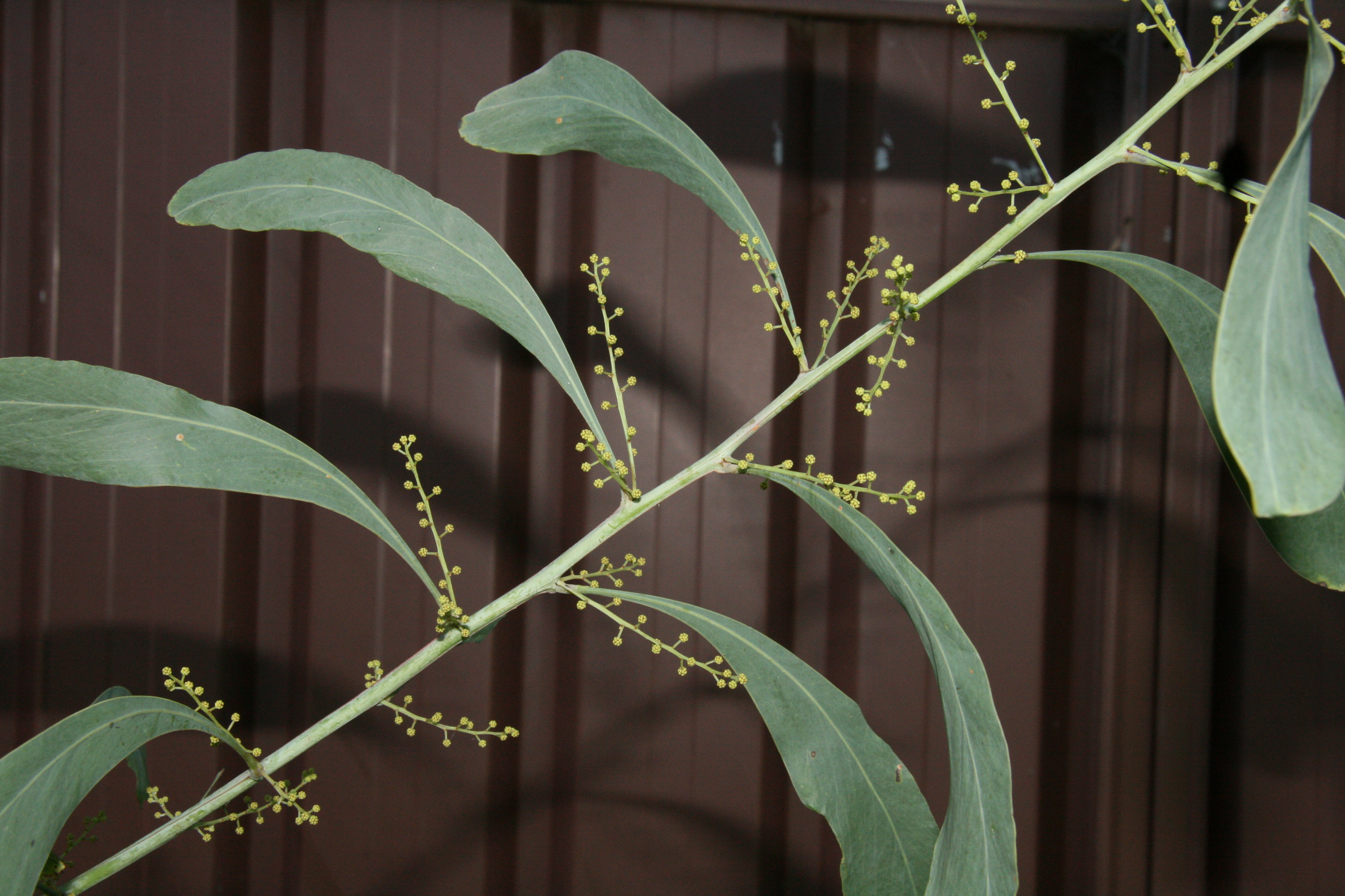 Acacia falcata in early bud, cultivated in my garden in Sydney.